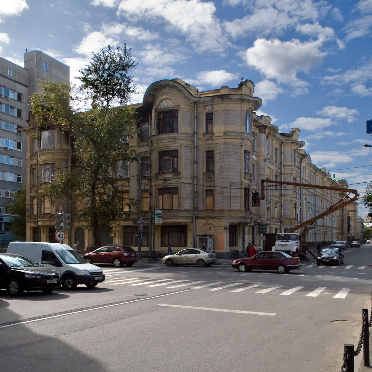 Former Bykov building in Moscow, designed by Lev Kekushev, was burnt down 16/09/2009 to make way for new development.